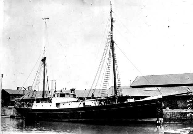 The ship Quest before leaving